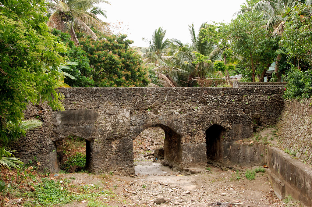 Old Spanish bridge in Ivana, Batanes